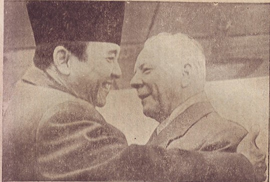 President Soekarno and the Chairman of the Presidium of the Supreme Soviet Kliment Voroshilov in a state meeting on 1958. Original caption : "Pres. Soekarno lan Pres. Worosjilov"